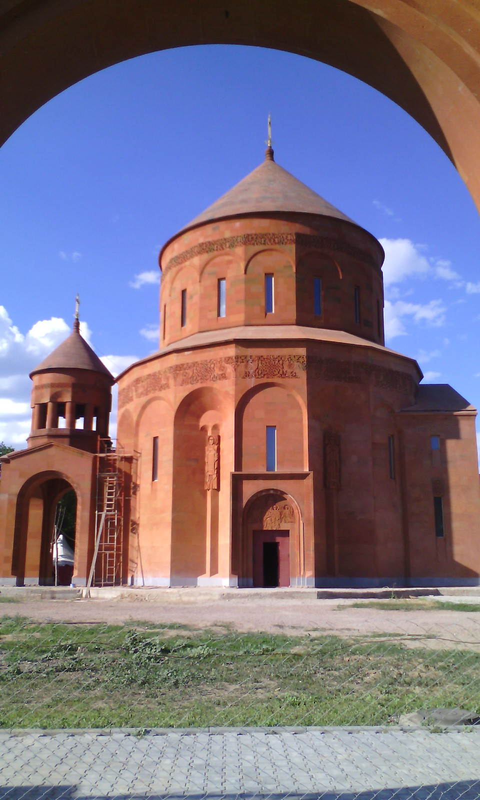 A view from under the entrance arch